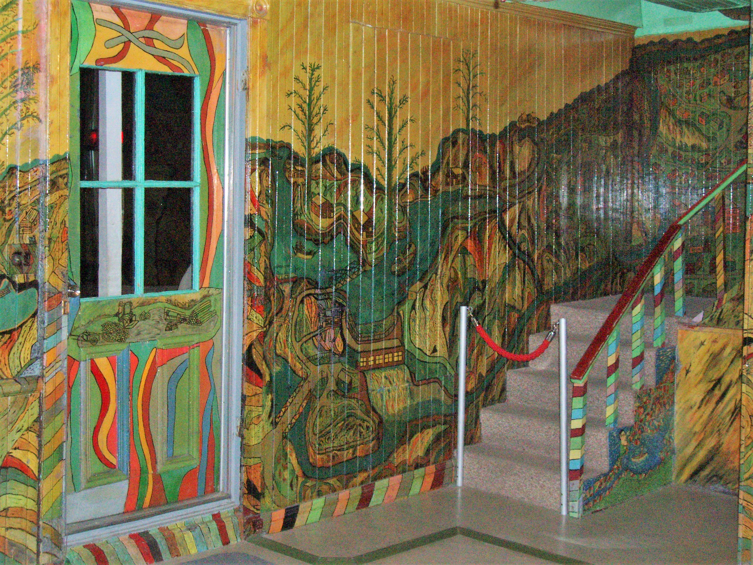 Painted home of renown Chicoutimi artist Arthur Villeneuve, now preserved at the Pulperie Museum.